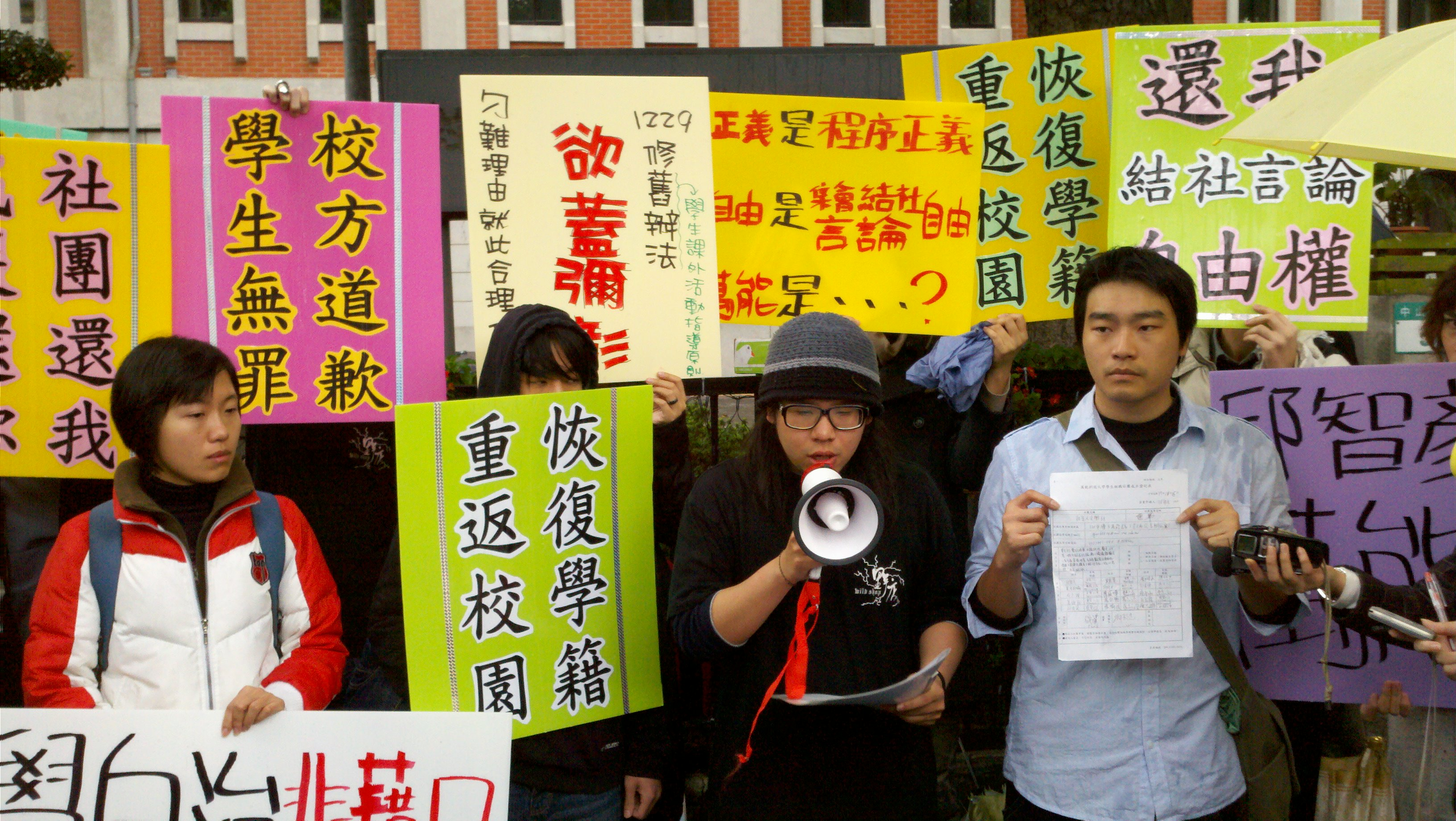 邱智彥，a student of Vanung University, protesting in front of Ministry of Education of Taiwan